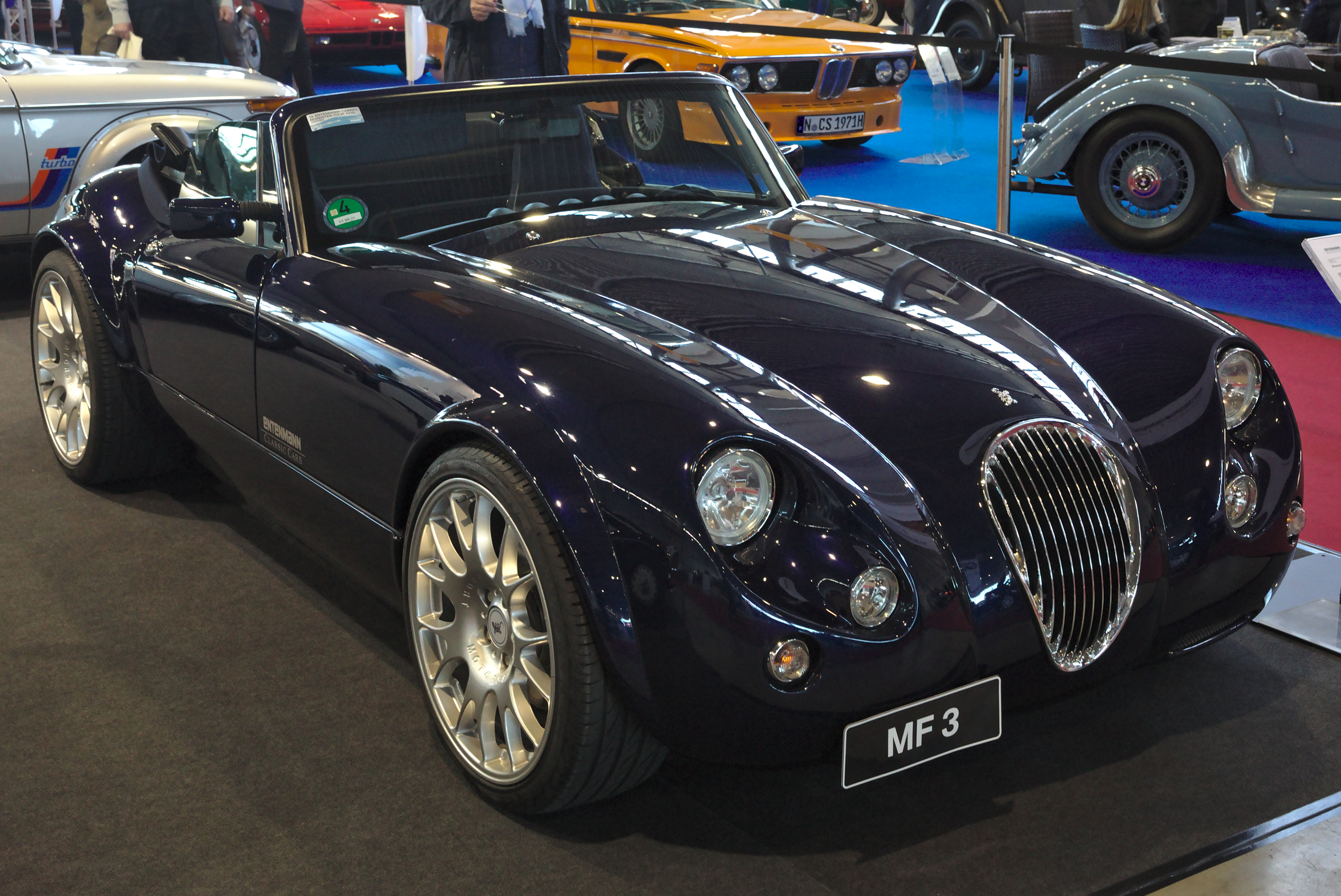 Wiesmann MF3 Roadster at Retro Classics 2019